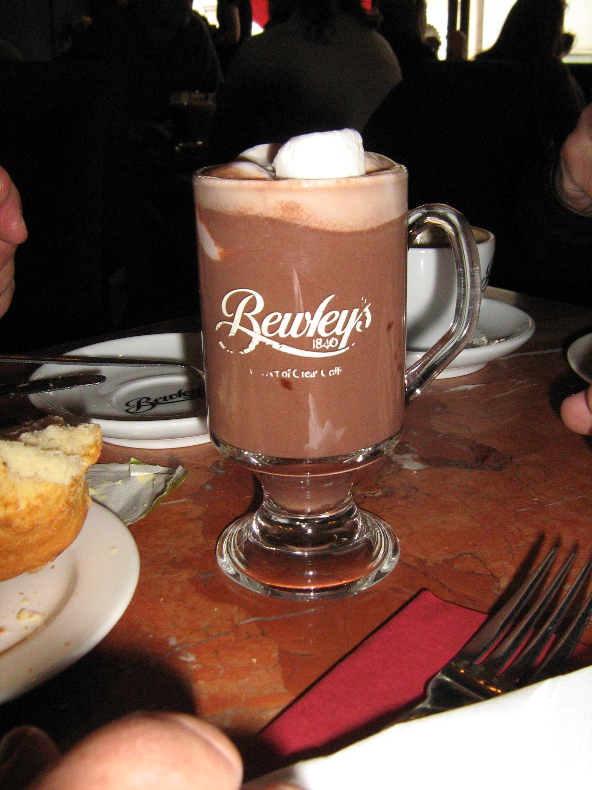 Hot chocolate on the wellknown Bewley's Cafe in Grafton Street in Dublin. April 2011.